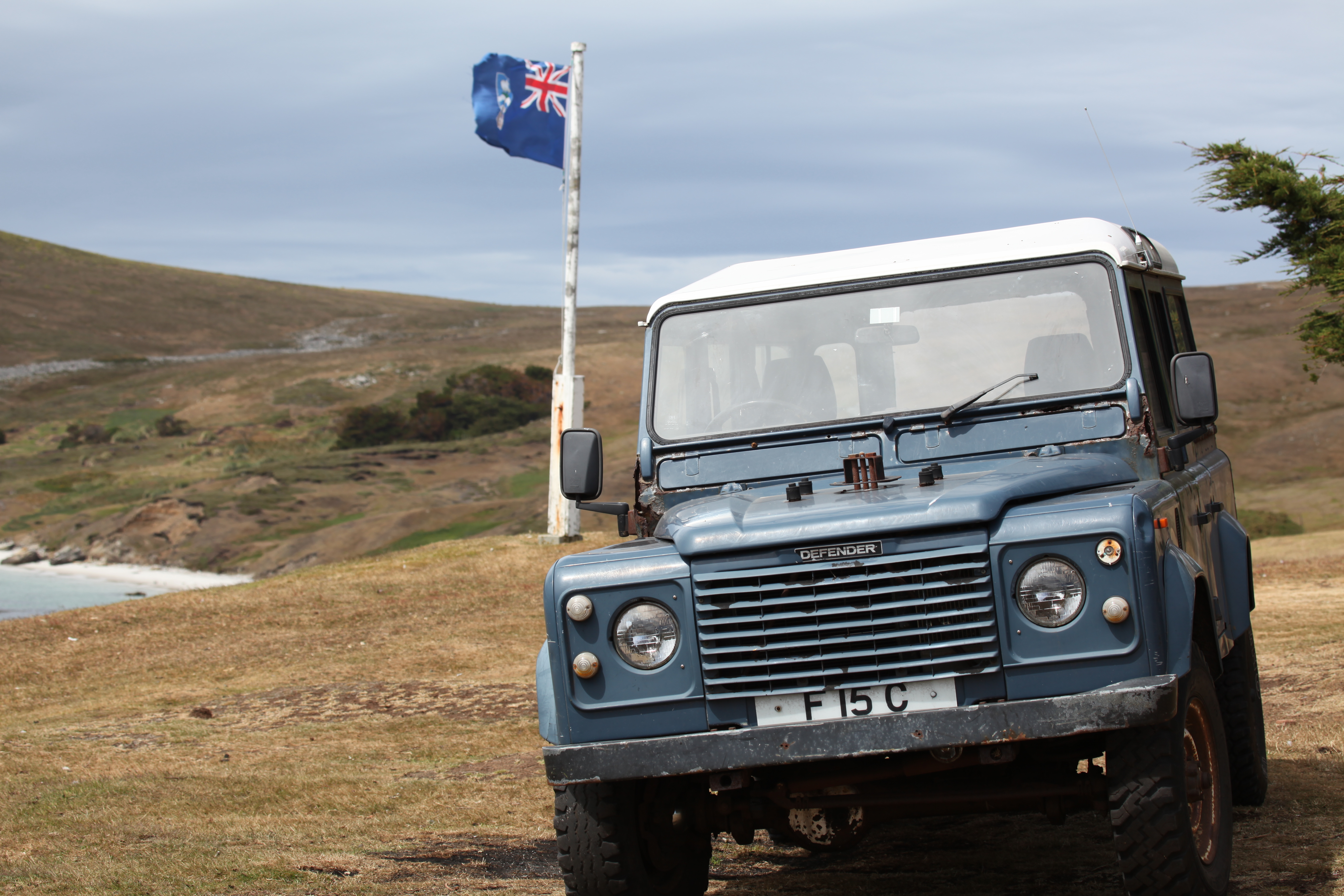 In the Falkland Islands.